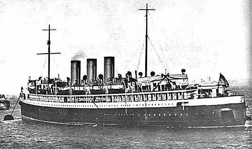 Photograph of the Canadian Pacific liner Princess Irene